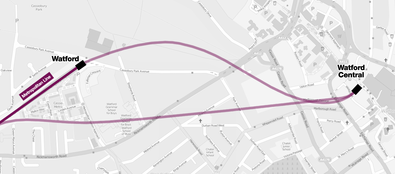 Diagram showing the approximate route options for an abandoned 1927 scheme to extend the London Underground Metropolitan Line from its current terminus near Cassiobury Park to a station on Watford High Street. The plan was never realised, although the intended station building still stands at 44 High Street. This map may be incomplete, and may contain errors. Don't rely solely on it for navigation.